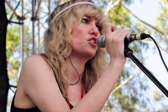 Ladyhawke playing live at Nevereverland 2008 at Belvoir Amphitheatre, Perth, Western Australia.